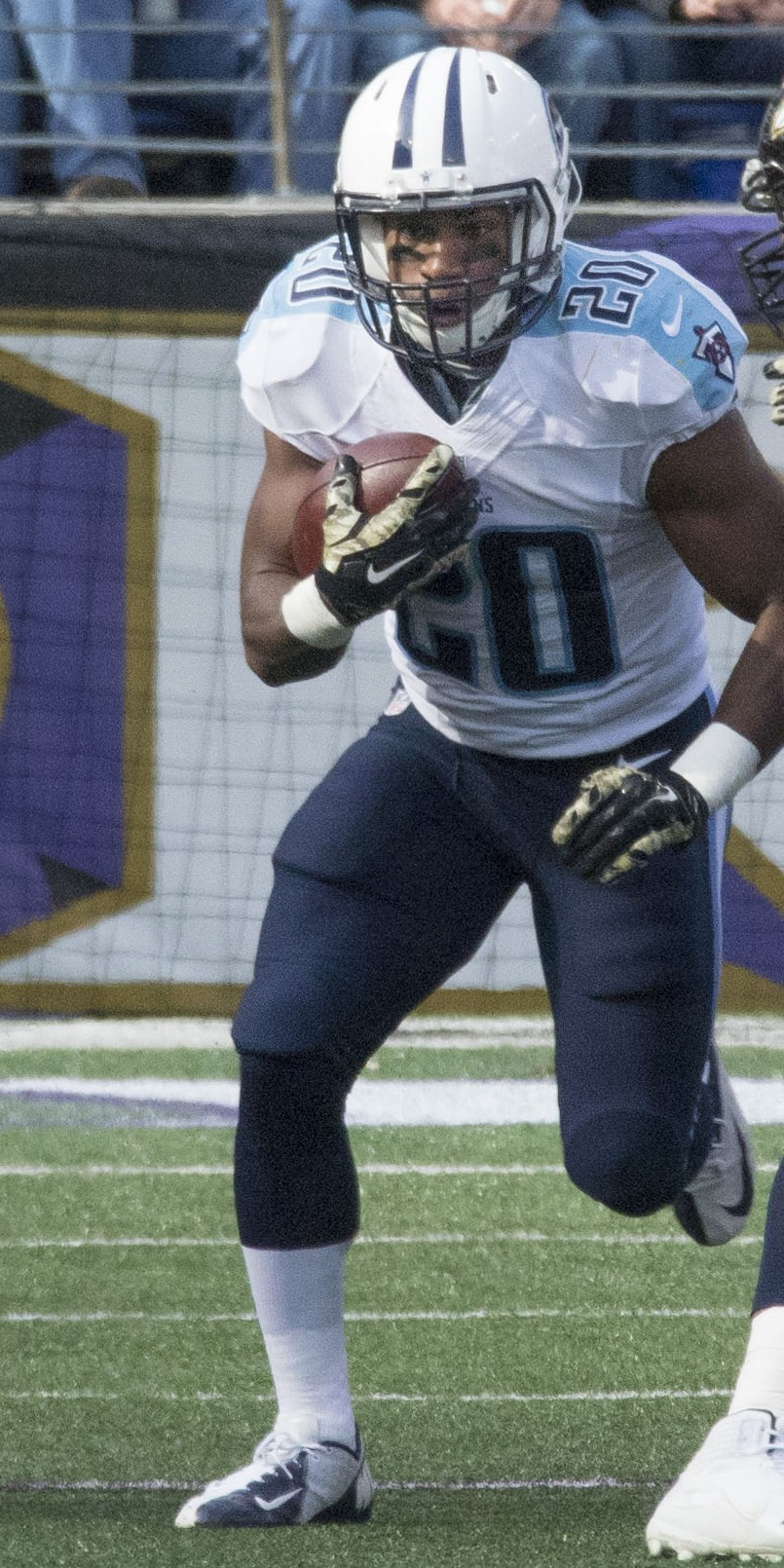 Tennessee Titans running back, Bishop Sankey, in a game against the Baltimore Ravens on November 9, 2014.